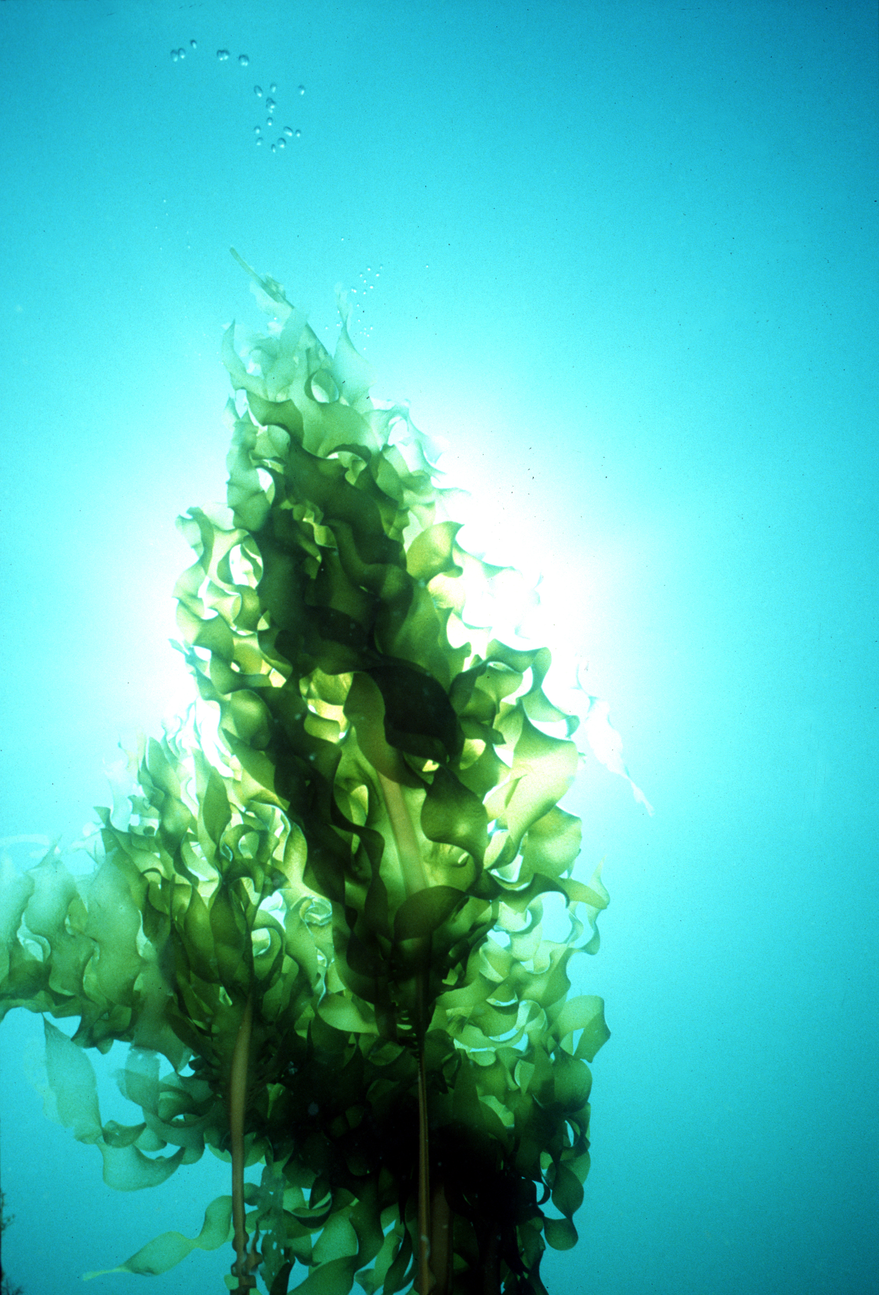 The introduced marine pest Undaria pinnatifida (kelp). The Centre for Research on Introduced Marine Pests (CRIMP) is, based at the Hobart laboratories of CSIRO Marine Research. See image HF1193 to view the base of the kelp.